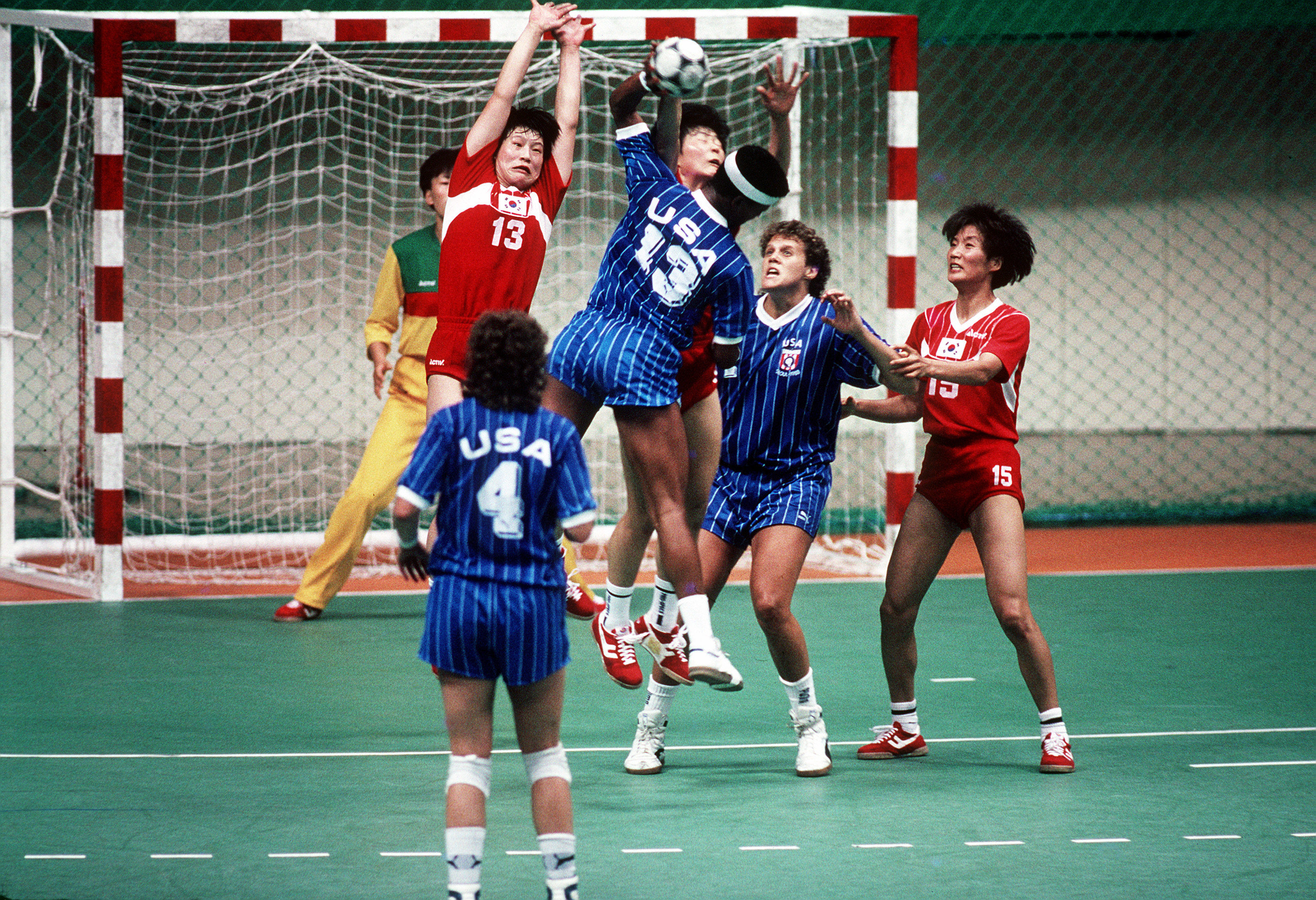 U.S. and South Korean players vie for the ball in front of the Korean goal during team handball match at the XXIVth Olympiad. The South Koreans took the Gold medal for the event.